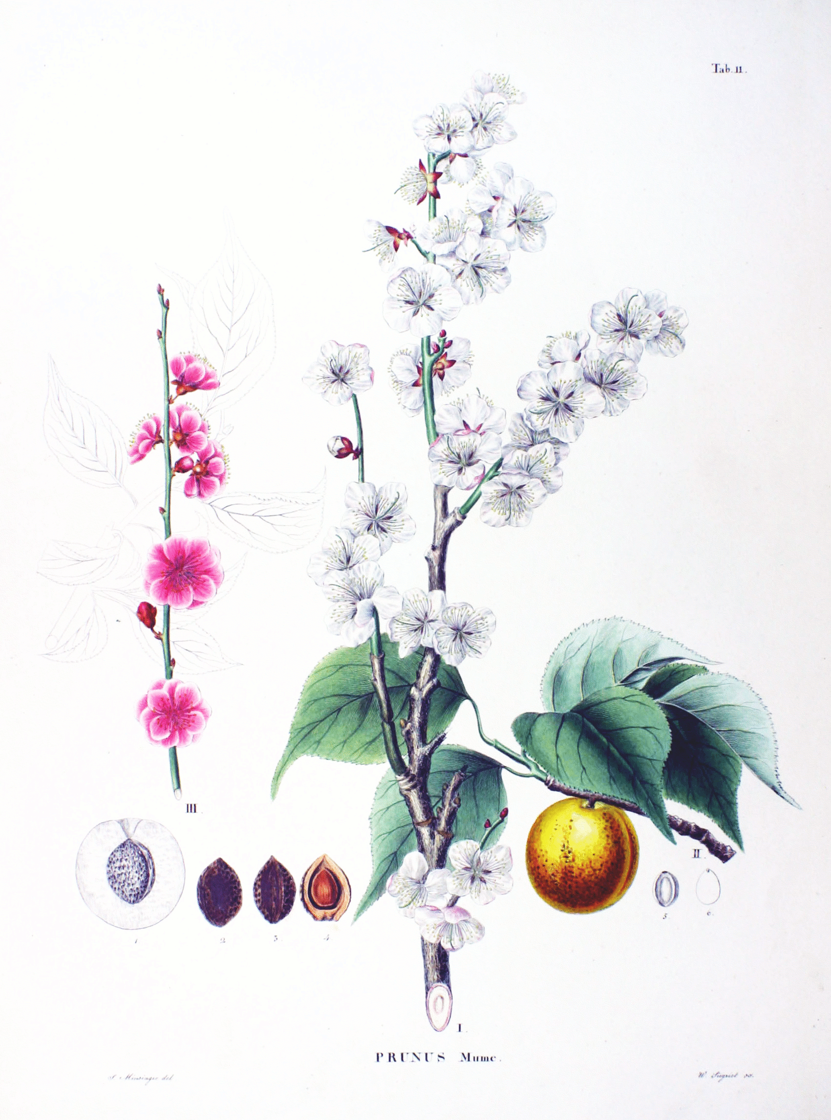 Plate from book